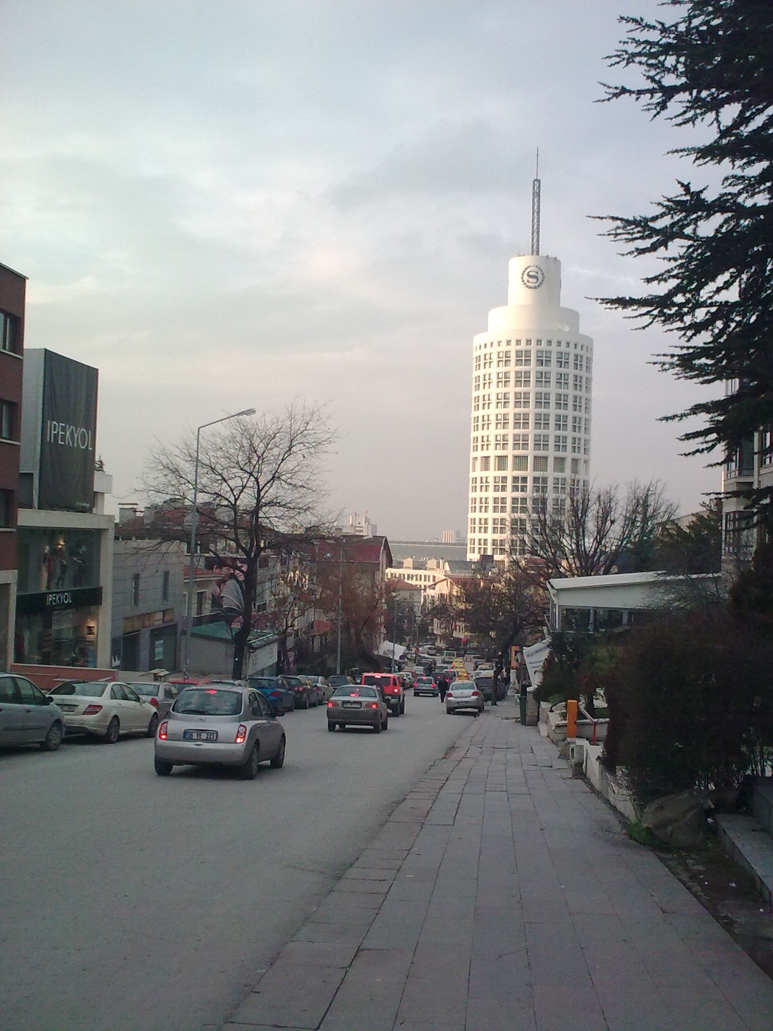 Arjantin (Argentina) Street in Ankara.